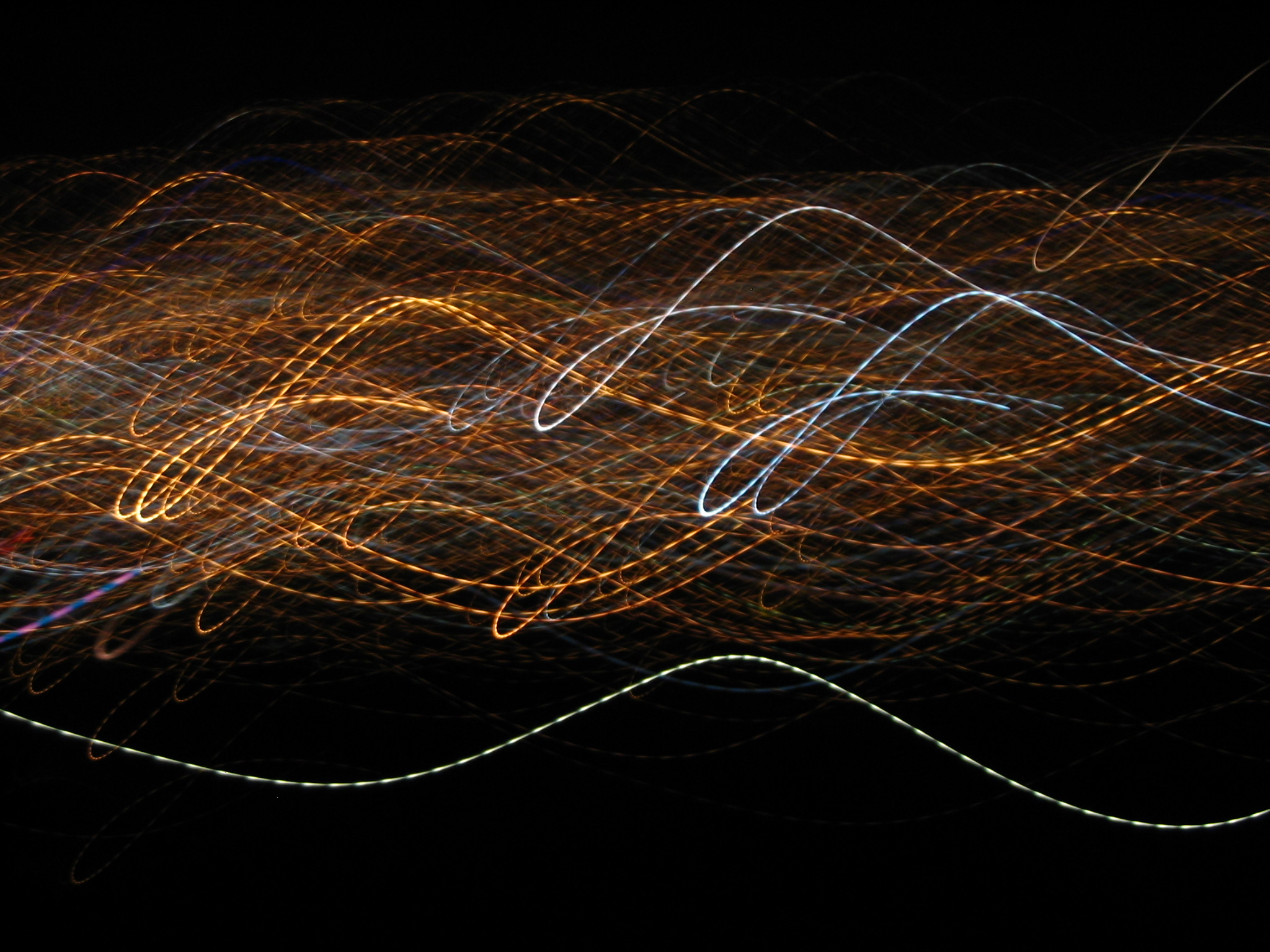 The 60 Hz blinking of non-incandescent city lights of Prince George, British Columbia (Canada), motion-blurred by waving the camera during the exposure. The AC nature of the mains power is revealed by the dashed appearance of the traces of moving lights.